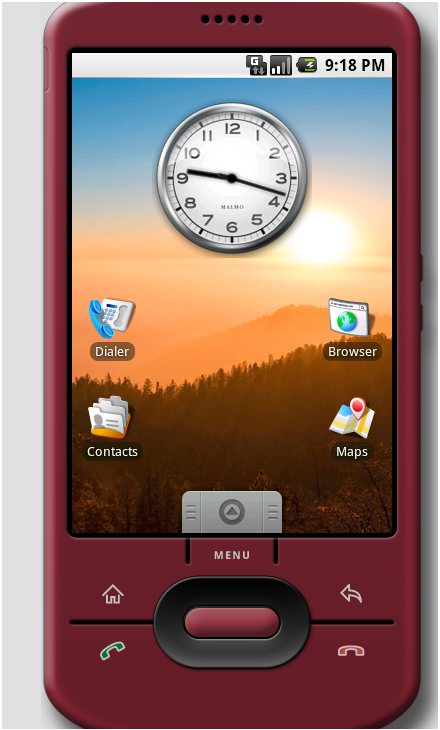 The Android Emulator home screen.